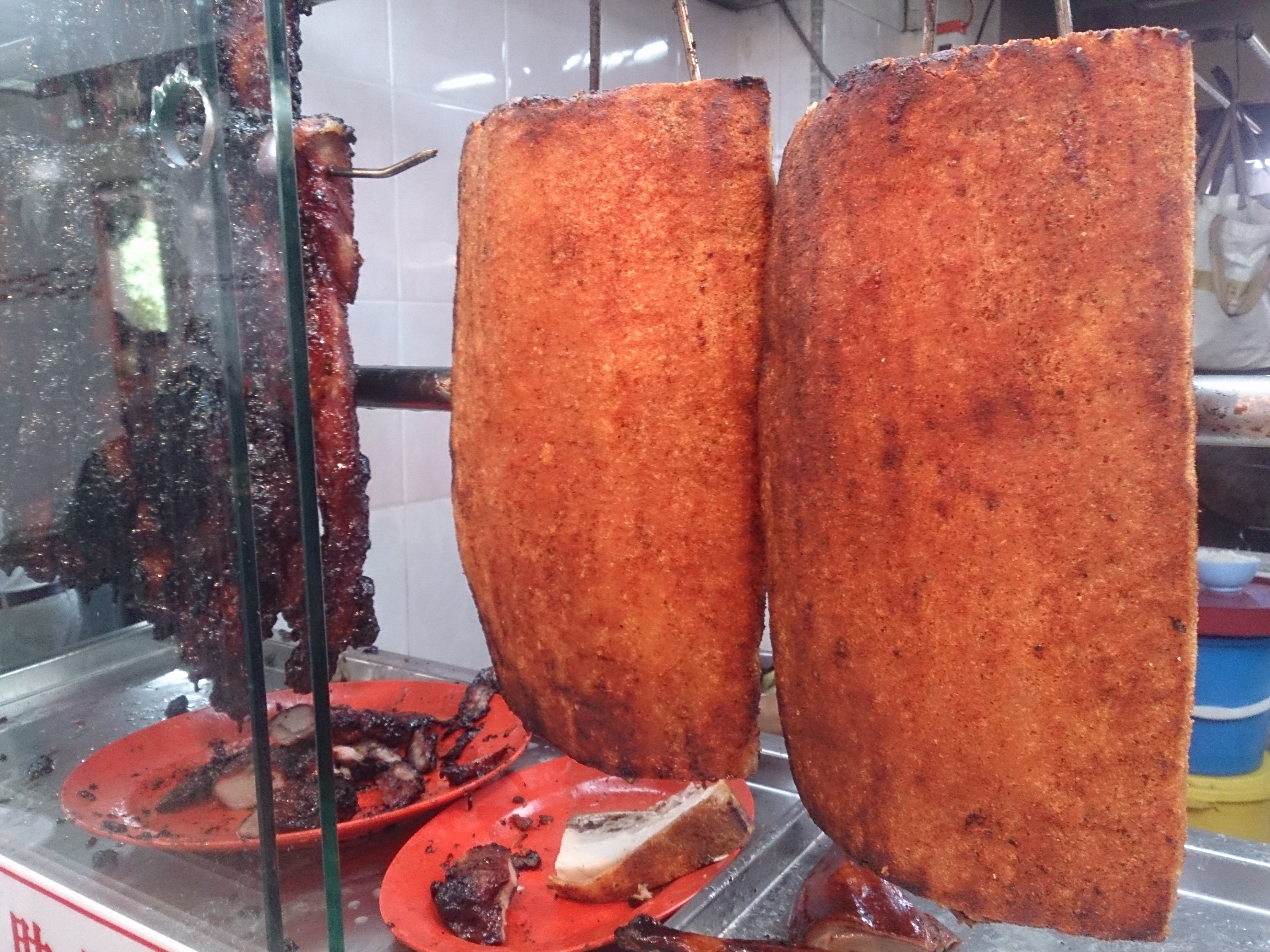 with crispy skin